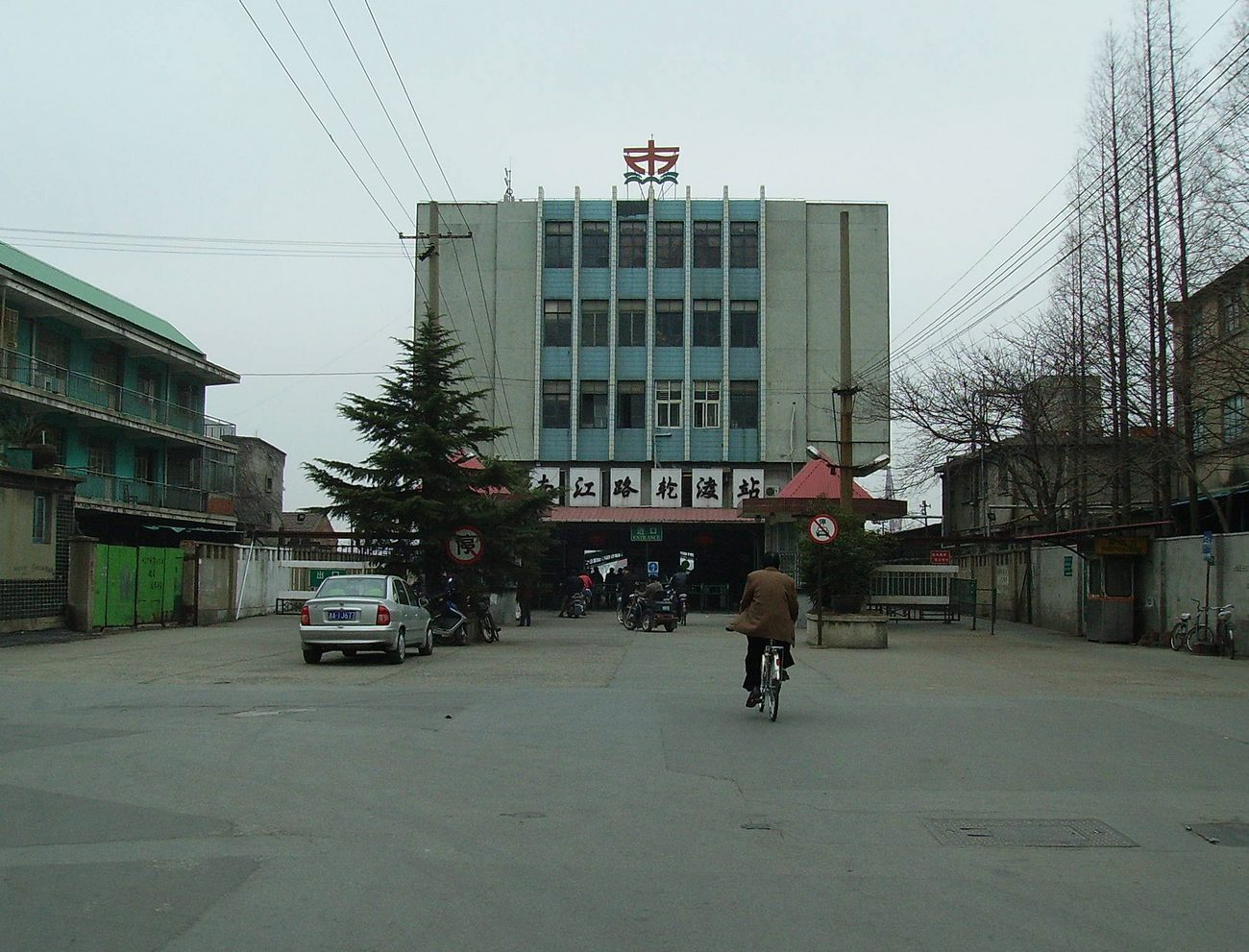 Nanjiang Road Ferry